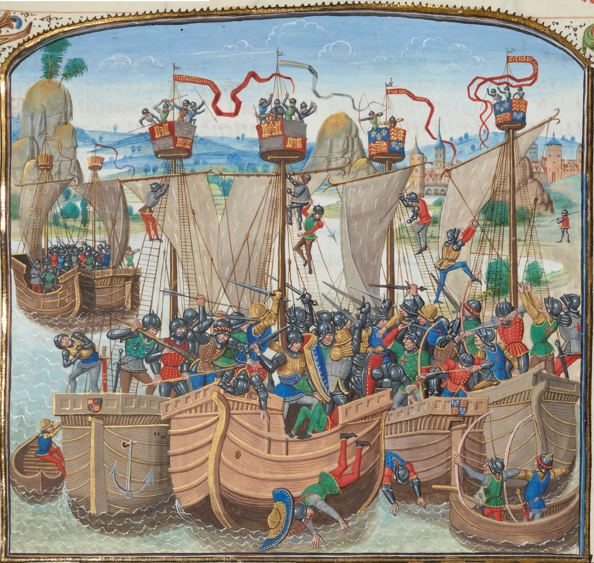 Tummy war of La Rochelle, 1372